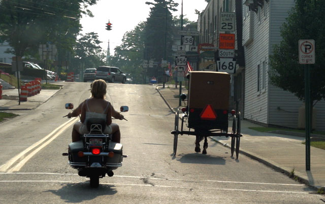 Traditional Amish transportation next to modern motorcycle in New Wilmington, Pennsylvania, U.S.A.